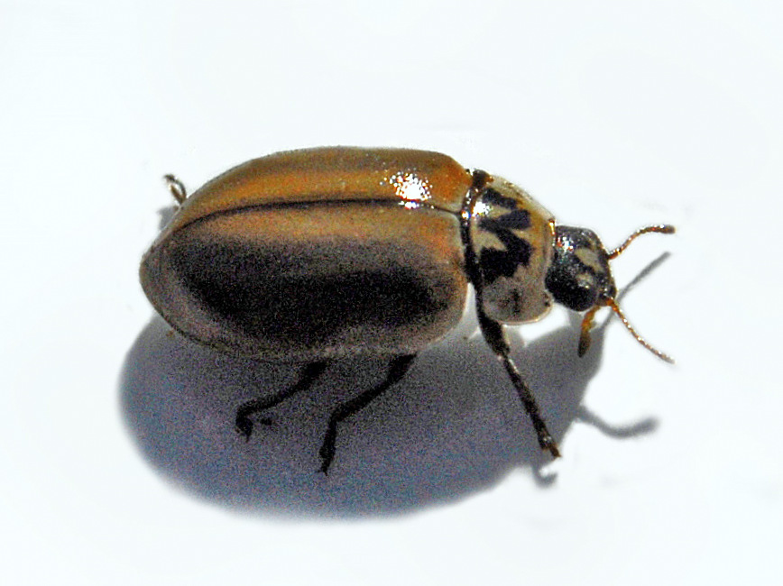 Aphidecta obliterata. Valsavaranche, Aosta, Italy